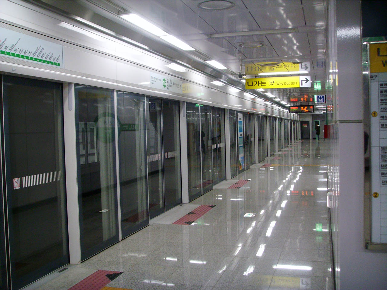 Daejeon Subway Line 1 Gapcheon Station